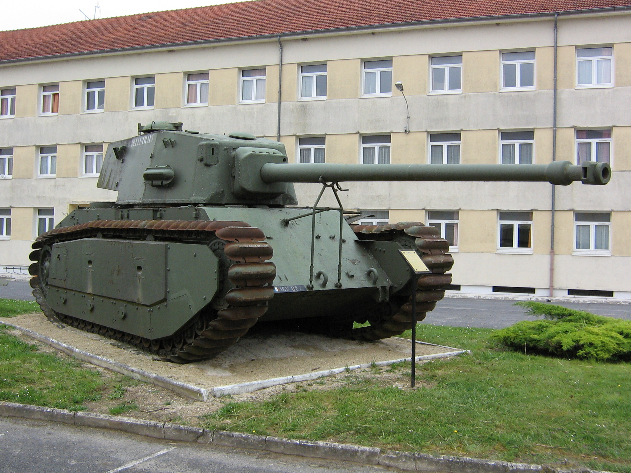 ARL-44 at the 501st-503rd Tank Regiment, Mourmelon-le-Grand.